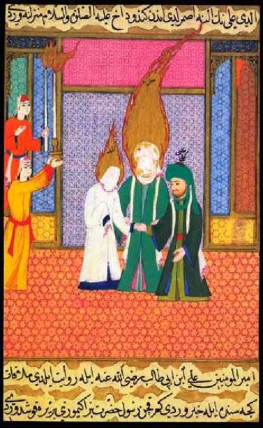 Mohammed giving his daughter Fatima in marriage to his cousin Ali. From the Siyer-i Nebi.